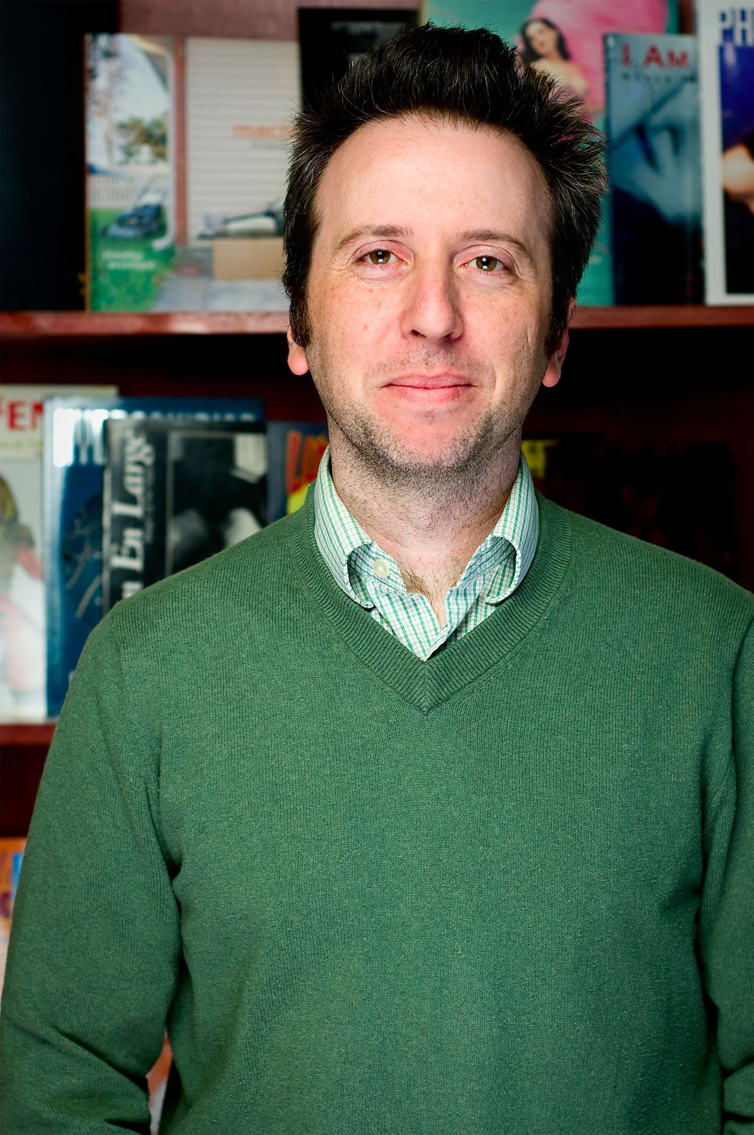 Cory Silverberg from 2009